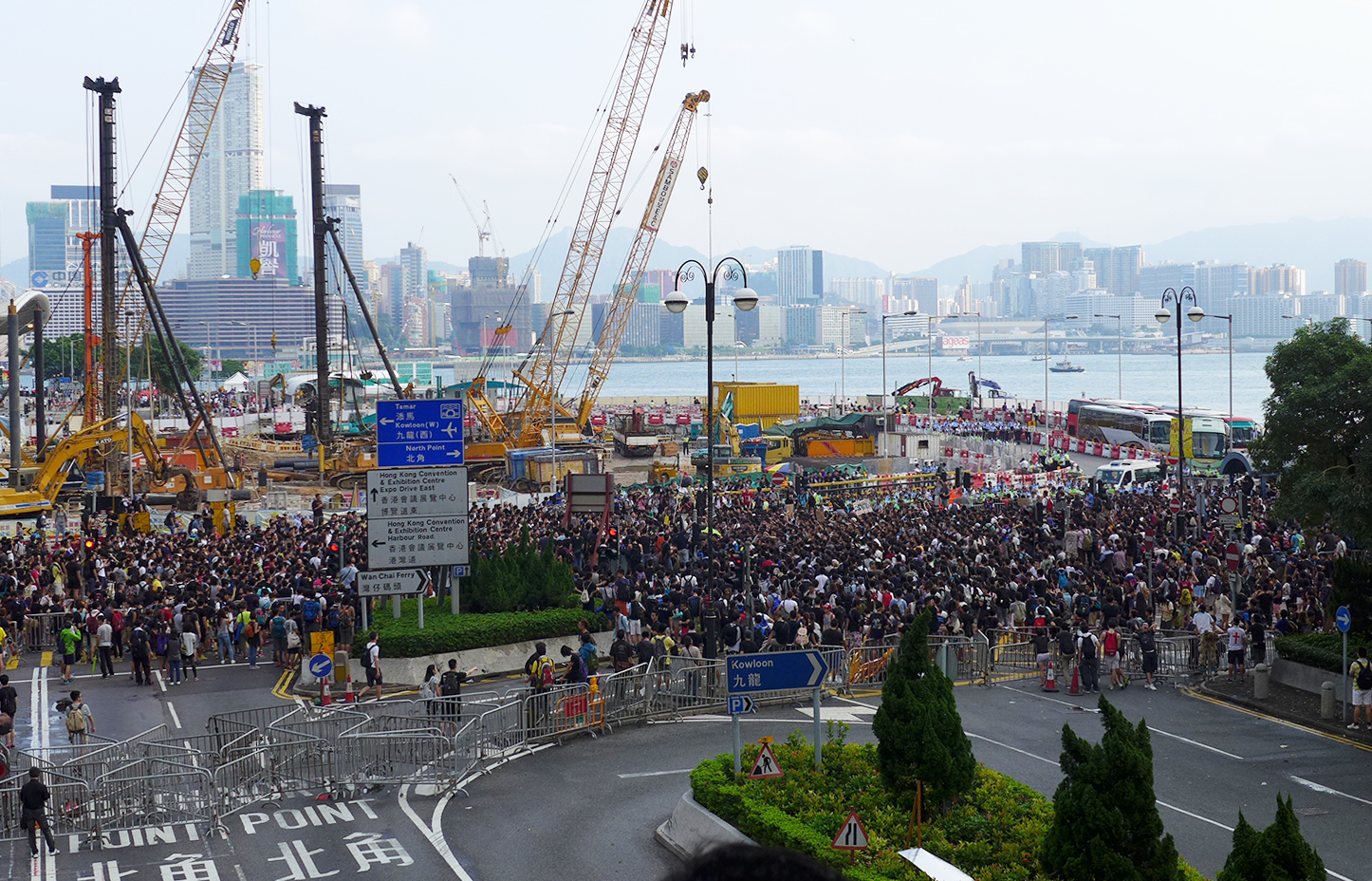 Umbrella Revolution Wan Chai Day view